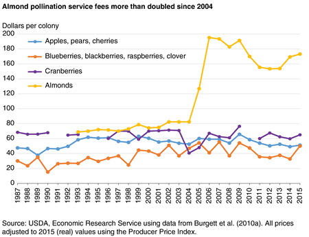 Created by USDA. The graph shows the average dollar amount per colonies received by beekeepers depending on the pollinated crop. Almond farms pay 3 times what other farms pay for the private pollination service.